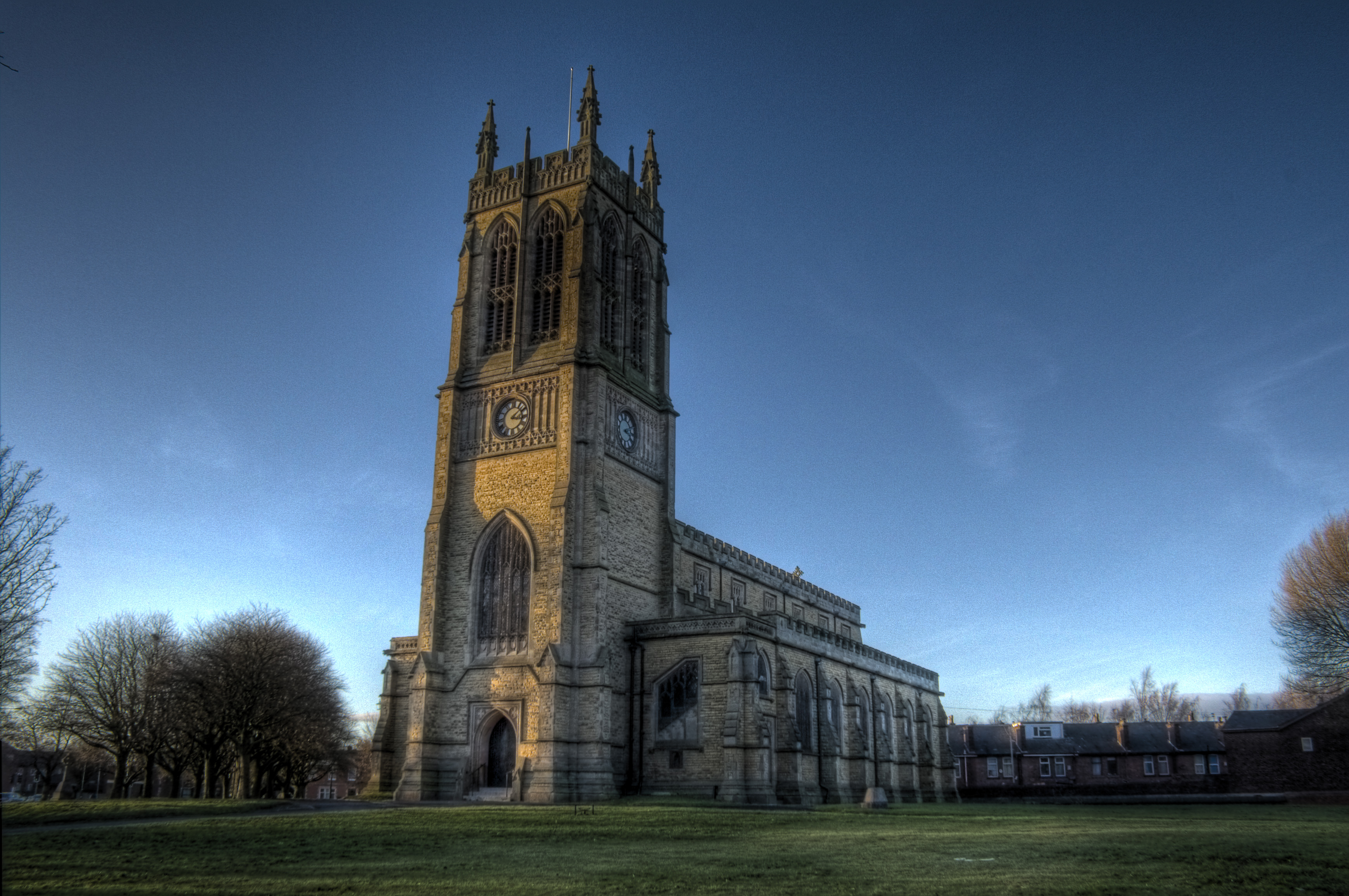 Parish church of SS Thomas and John, Radcliffe, Greater Manchester, seen from the southeast. An HDR image from 3 exposures.